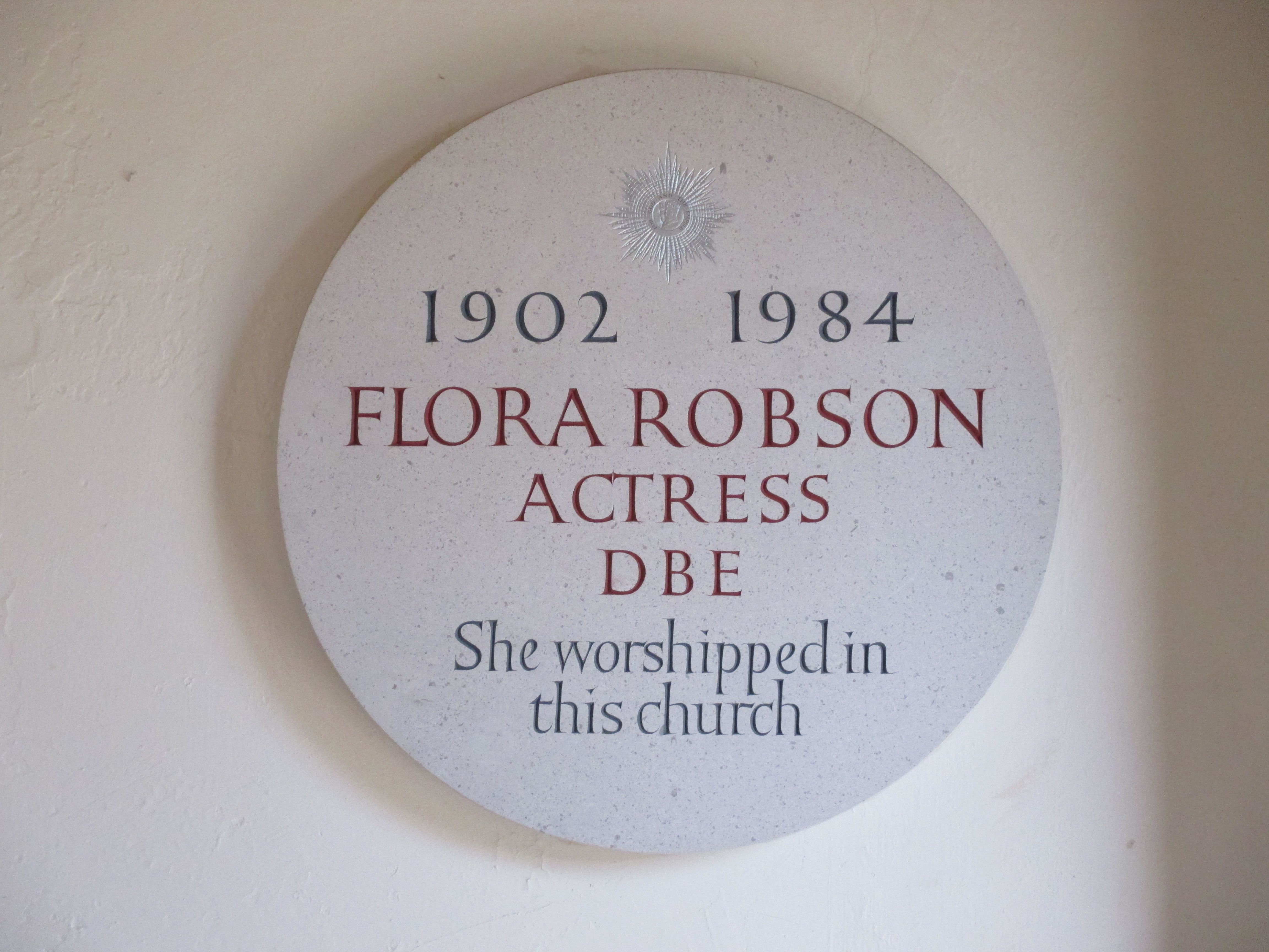 Memorial tablet to the actress Dame Flora Robson in the porch of St Nicholas Church, Brighton, East Sussex.